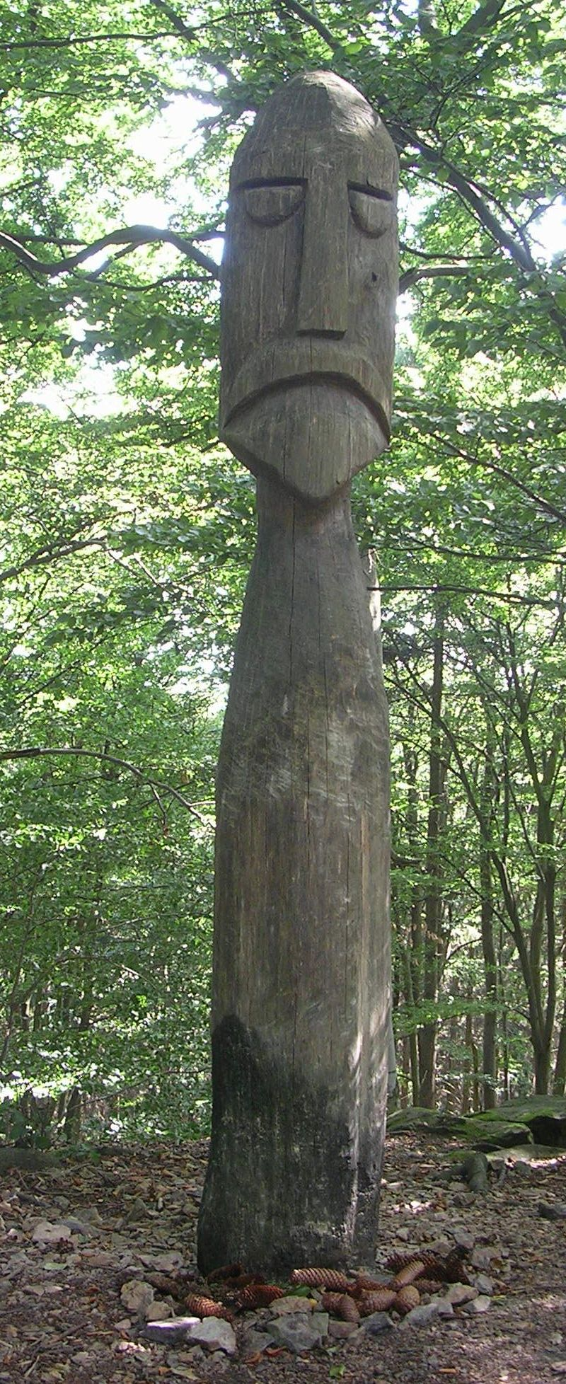 Kublov, Beroun District, Central Bohemian Region, the Czech Republic. An idol of Veles, the Slavic god, from 2003 at the Velíz Hill.